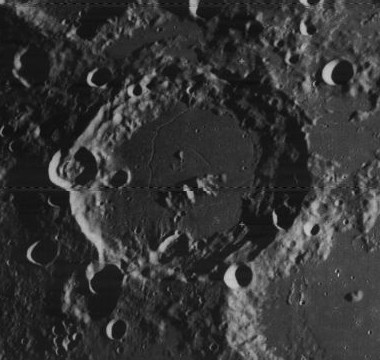 Oblique view of Nernst crater, on the moon.